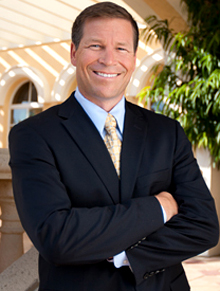 Official portrait of Congressman Connie Mack IV (R-FL).